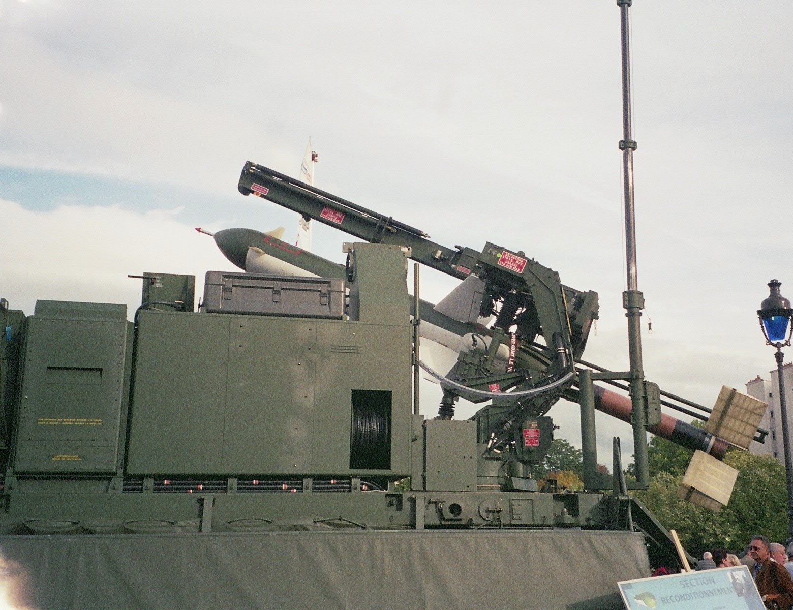 Nation/Defense days, Esplanade des Invalides, Paris, France, September 24-25, 2005